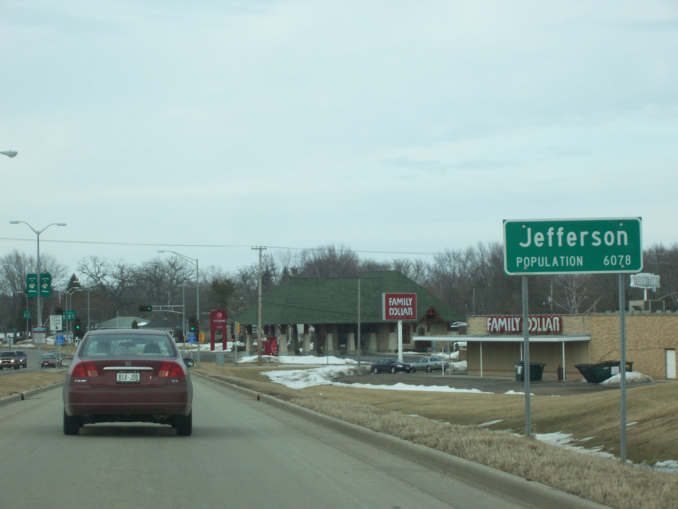 The population sign for Jefferson, Wisconsin, USA in Jefferson County, Wisconsin.